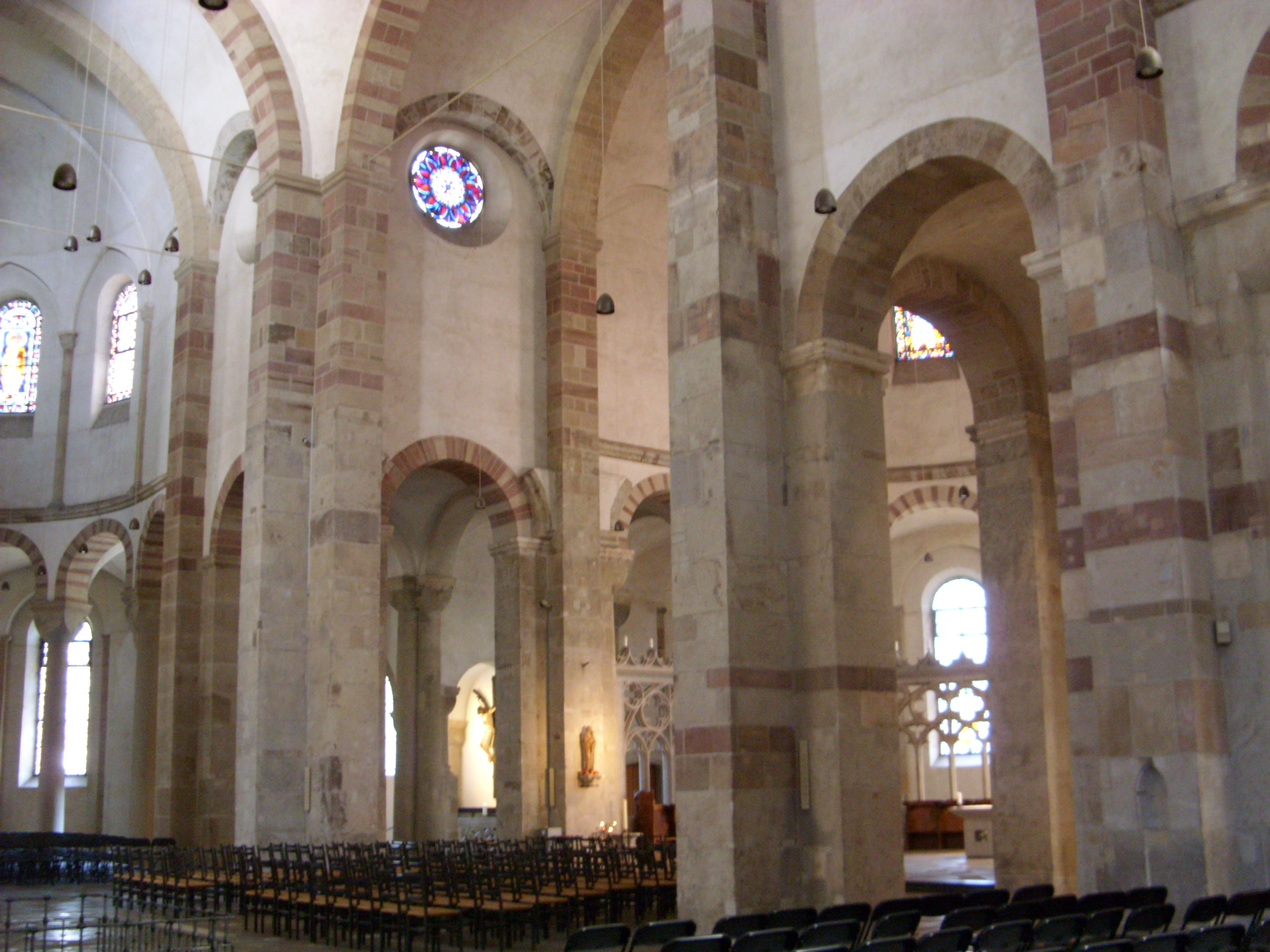 Interior of the main aisle